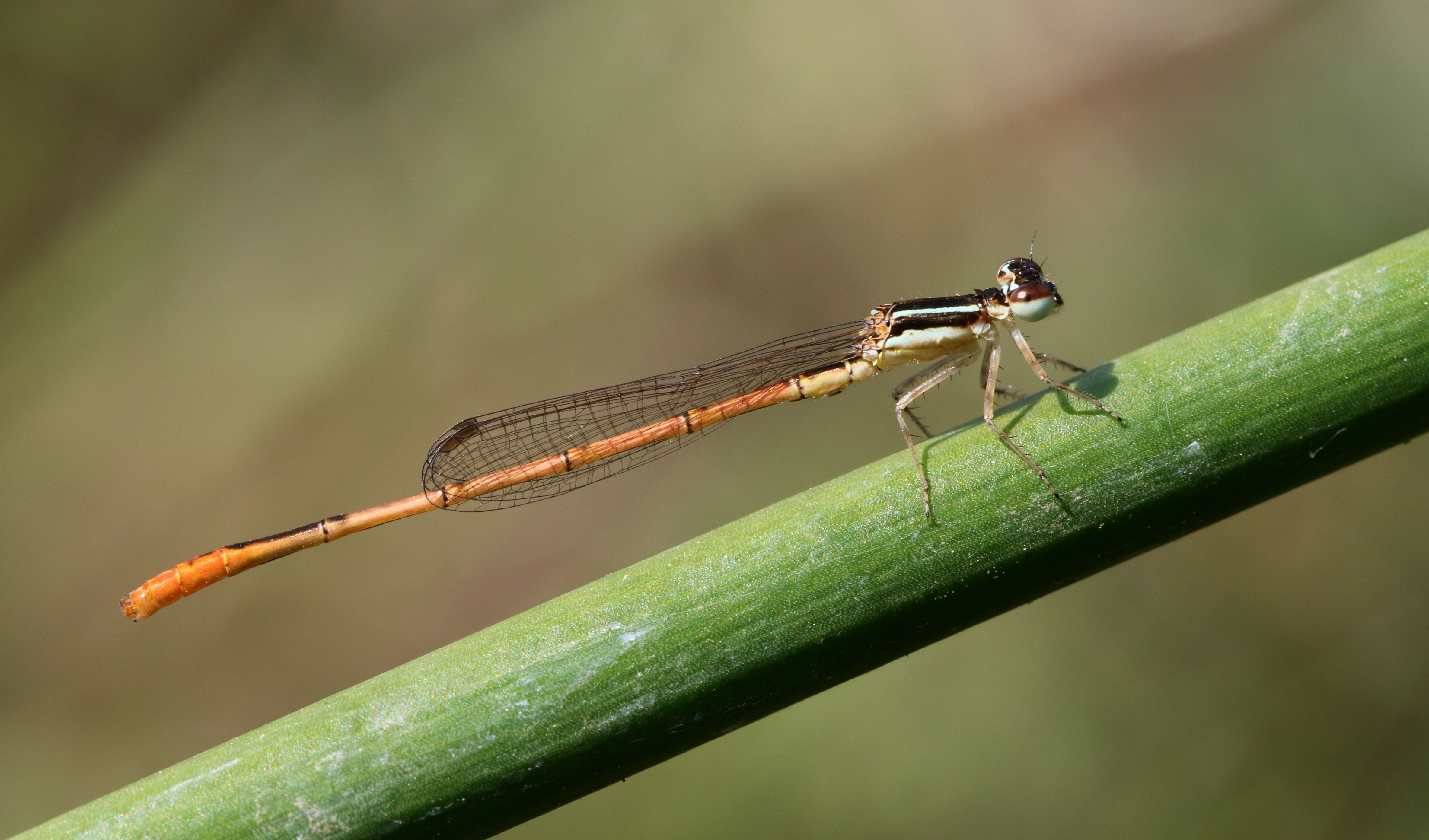 Immature male white-masked whisp Agriocnemis falcifera at Cumberland Nature Reserve, KwaZulu-Natal, South Africa.